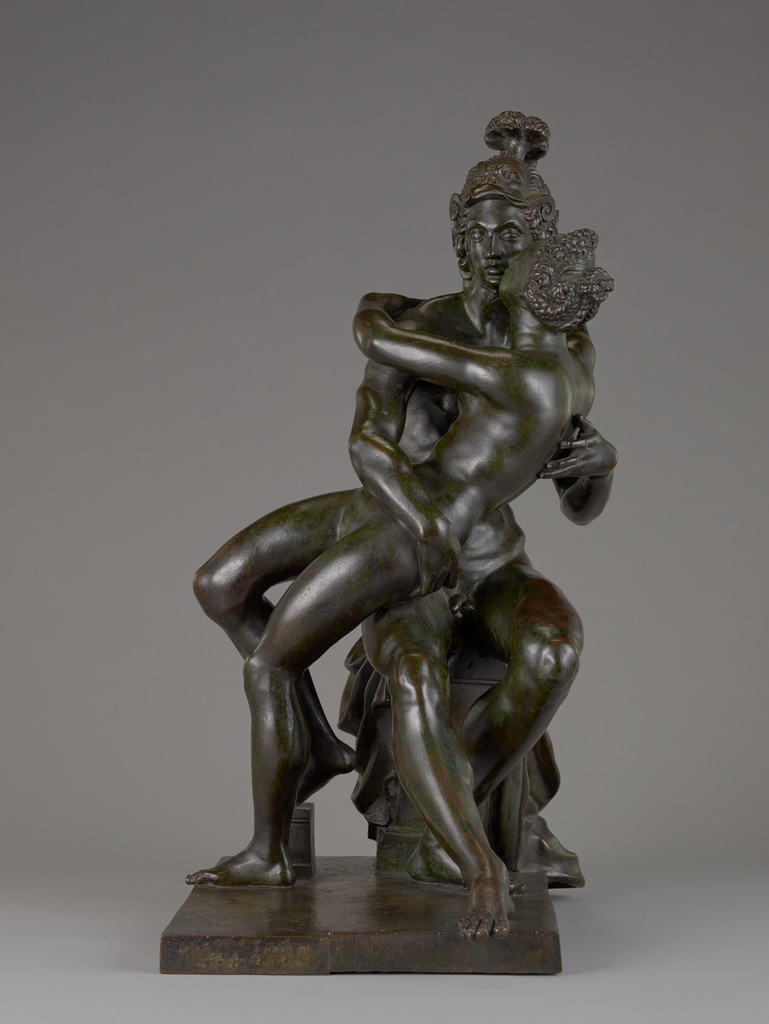 Mars and Venus; Attributed to Hans Mont (Flemish, born about 1545 - after 1585); Flanders (?), Belgium; 1580; Bronze; 53.9 x 37.2 x 25.9 cm, 28.5766 kg (21 1/4 x 14 5/8 x 10 3/16 in., 63 lb.); 85.SB.75